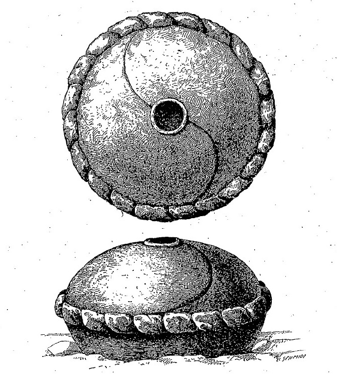 Ernest Théodore Hamy, Curator of the Musée d'Ethnographie of France, in the Journal Revue d'ethnographie, 1886. French article on silhouette carved on Mayan rock altar in Copan Honduras, similar to Chinese symbol.